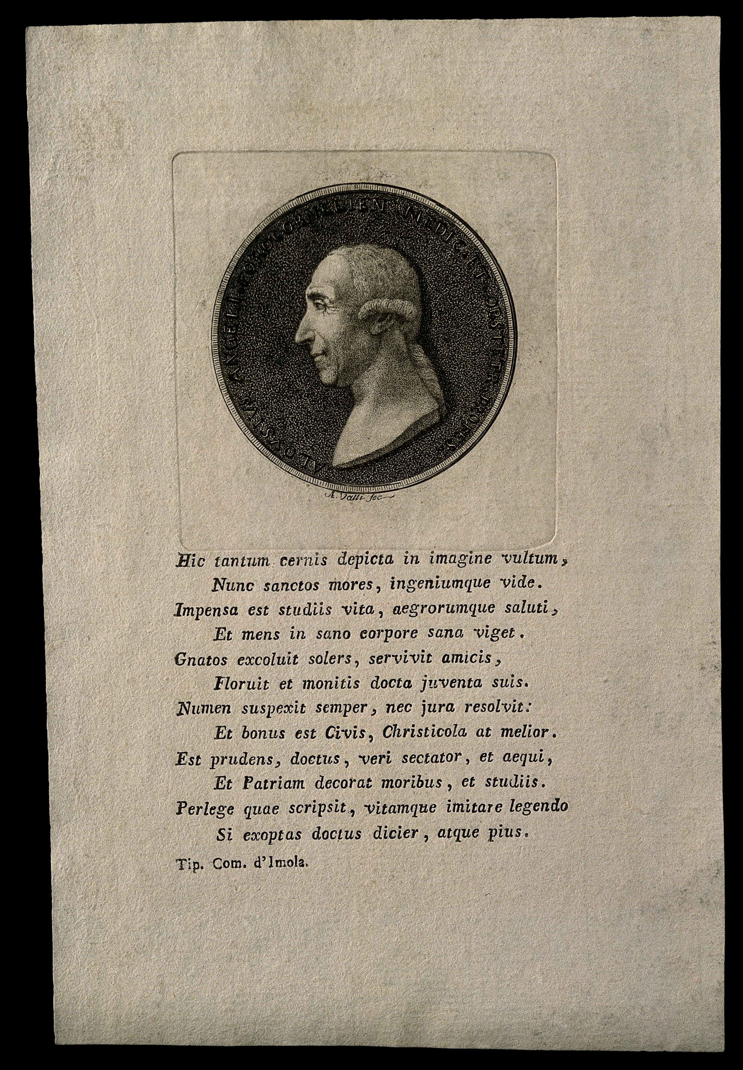 Luigi Angeli. Stipple engraving by A. Valli. Iconographic Collections Keywords: portrait prints; Luigi Angeli; angeli, luigi, 1739-1829; stipple prints